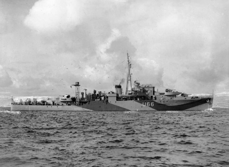 The Royal Navy Modified Black Swan-class sloop HMS Starling (U66) underway.